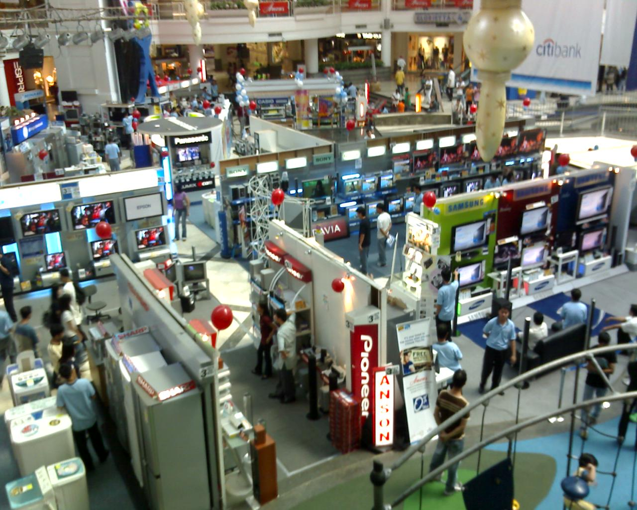 Shot of the central atrium during an electronics show day. Pic taken by me (Badudoy) in October 2006 buring a visit to the Ayala Center.